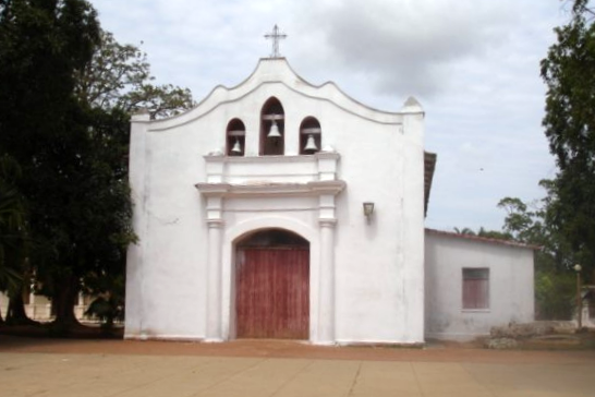 Iglesia de la Virgen del Rosario en Melena del Sur